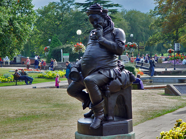 Statue of Falstaff There are a further four statues in the area in front of the Royal Shakespeare Theatre. Behind this southward view of Falstaff, one can see a little of the Basin (for houseboats) and The Bancroft gardens.